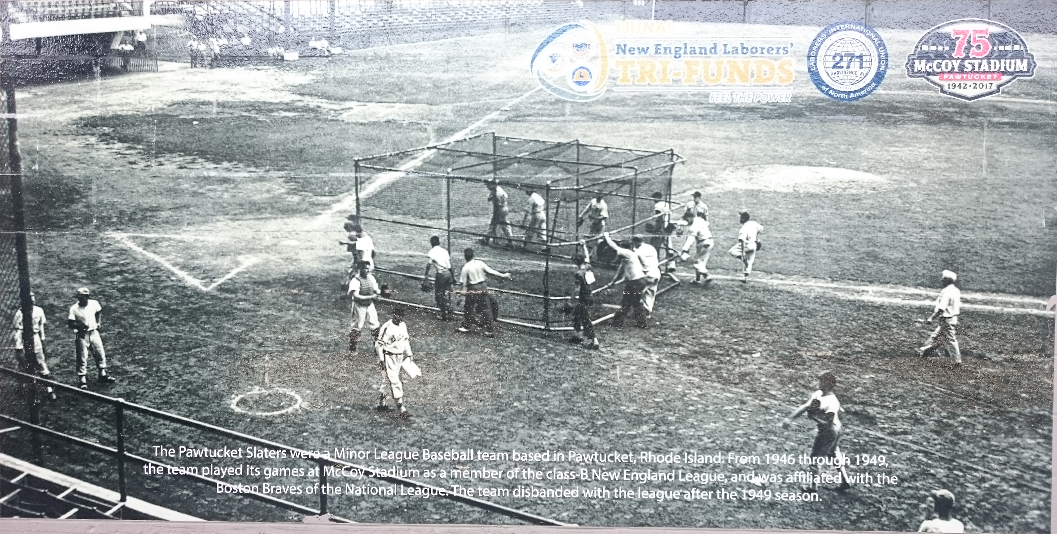 Mural honoring the Pawtucket Slaters on the concourse of McCoy Stadium, Pawtucket, Rhode Island